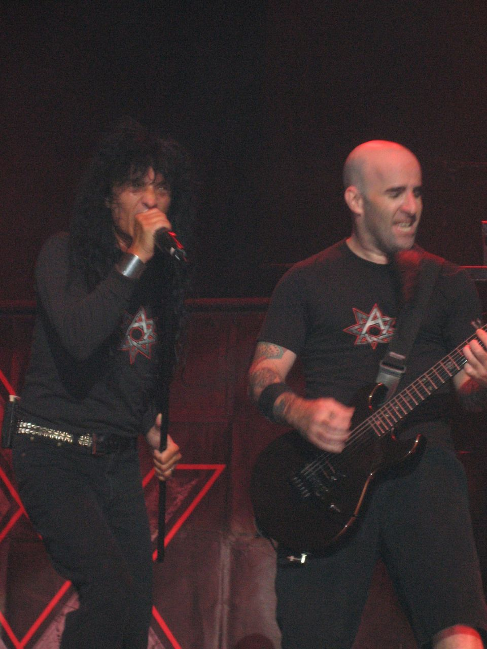 Anthrax -- Live @ Judas Priest Retribution 2005 Tour